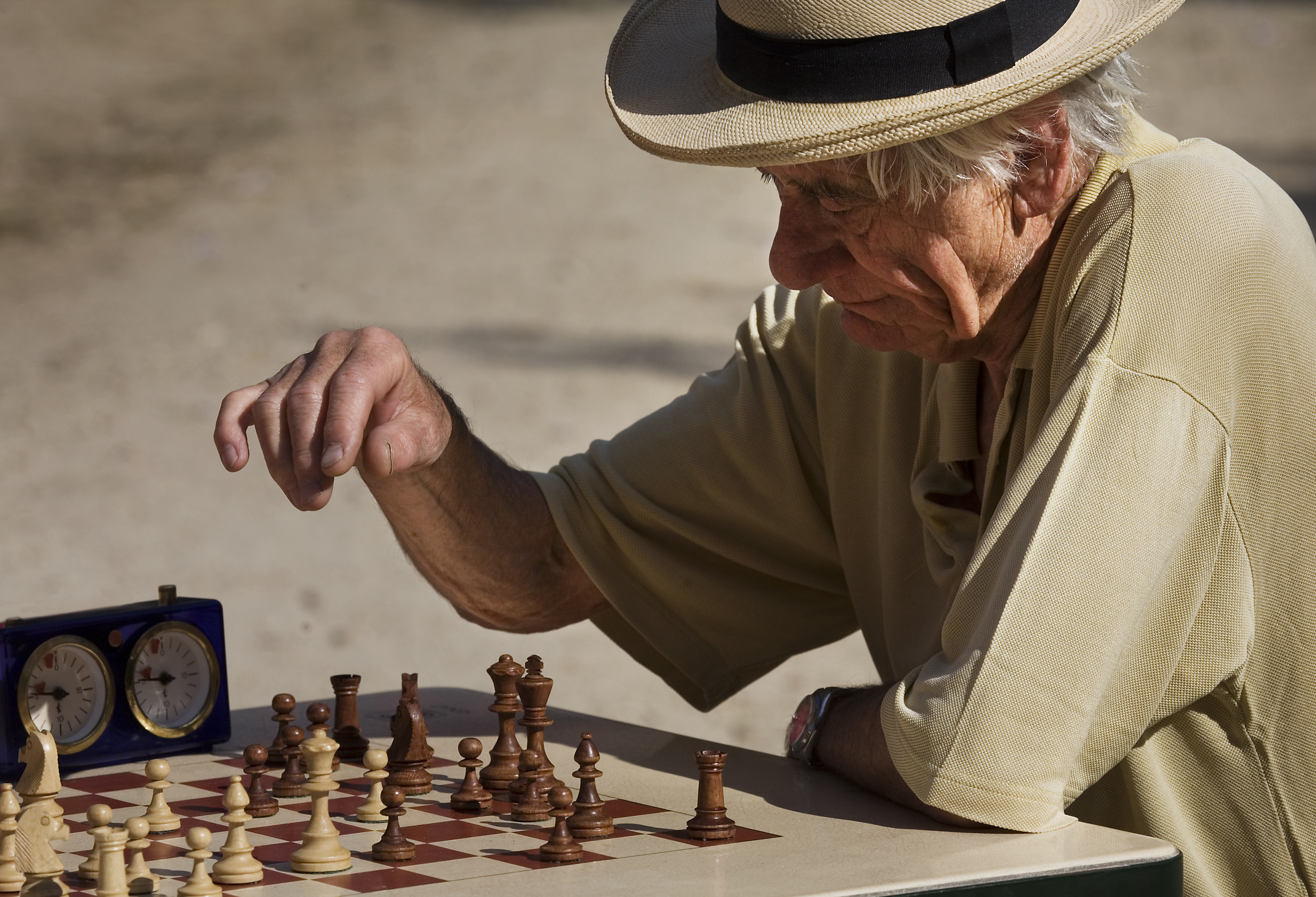 Old retired man playing chess in Jardin du Luxembourg, Paris